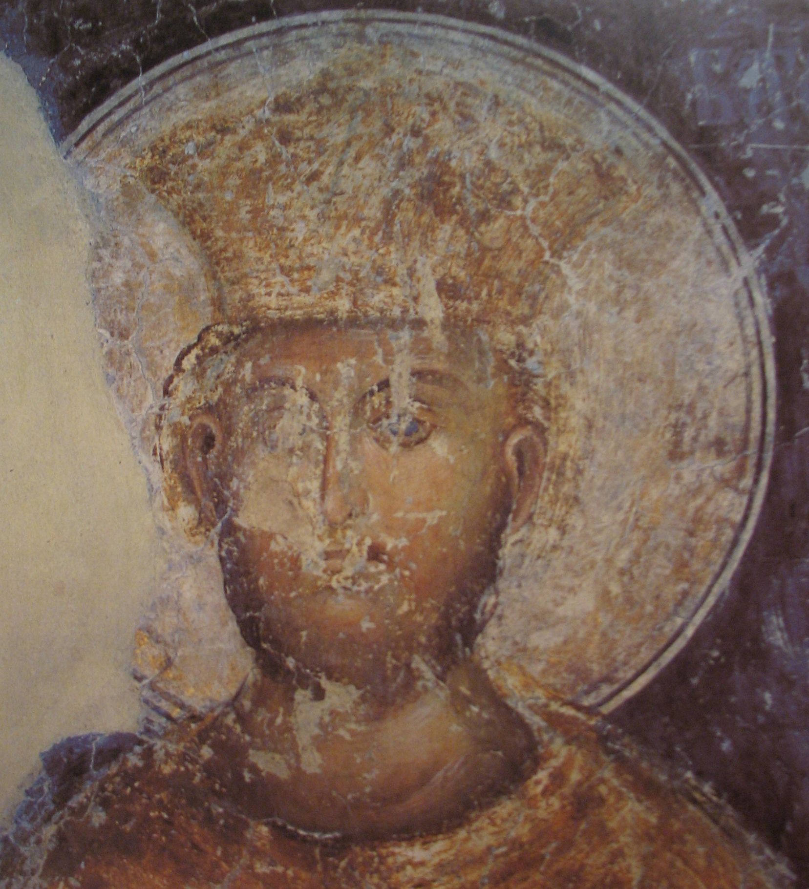 Fresco of Stefan Lazarević in Kalenić monastery, near Rekovac, Serbia.